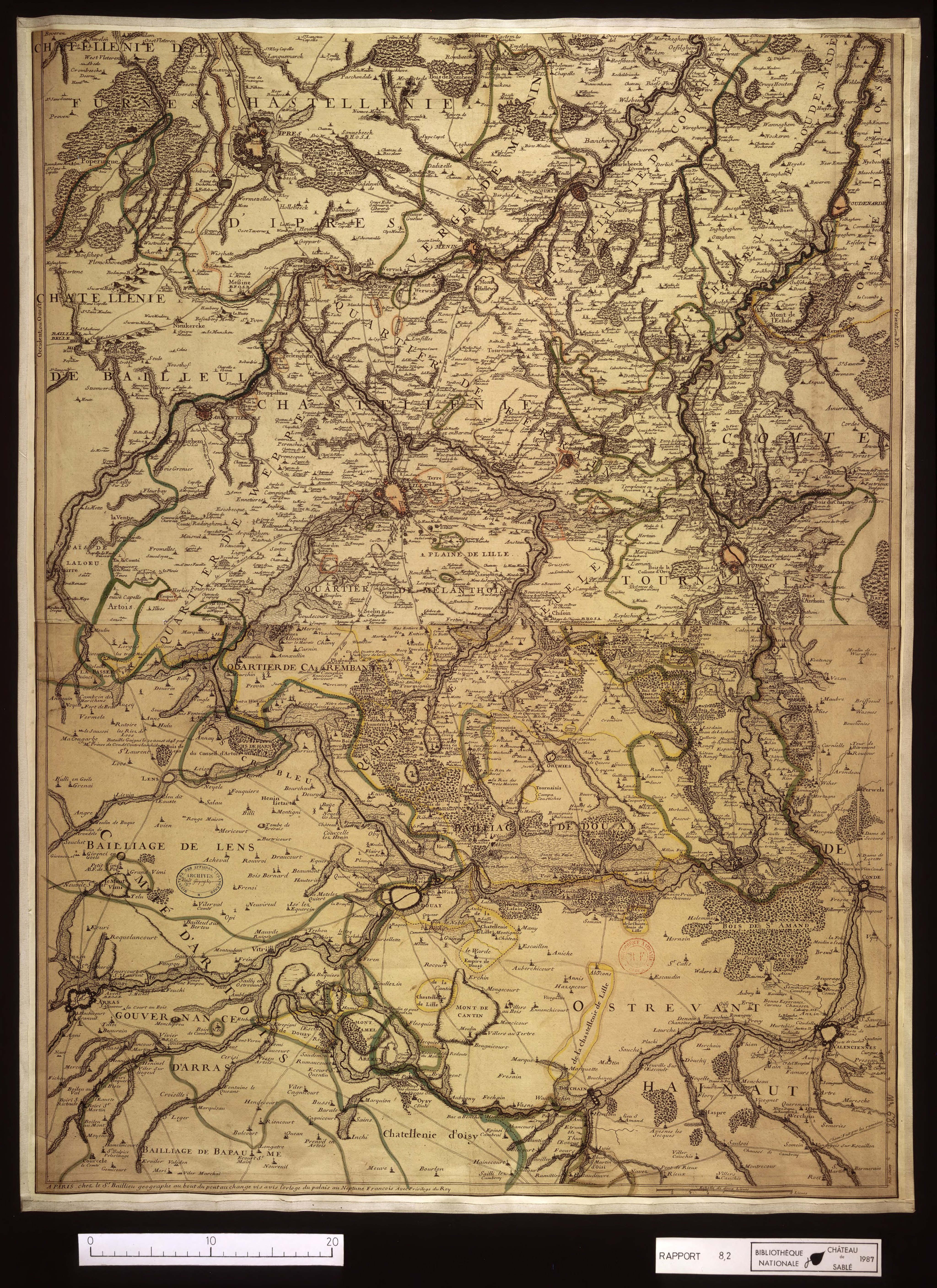 Châtellenie de Lille, par Gaspard Baillieul (mort en 1744)